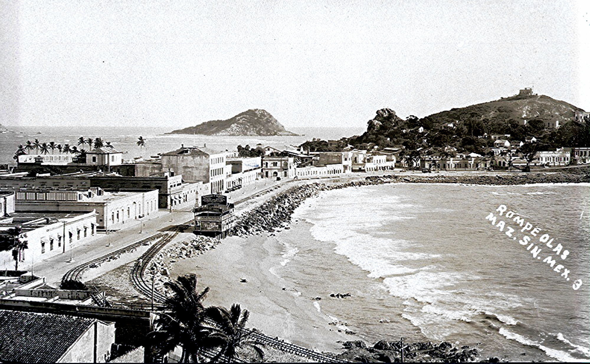 Mazatlán Antiguo